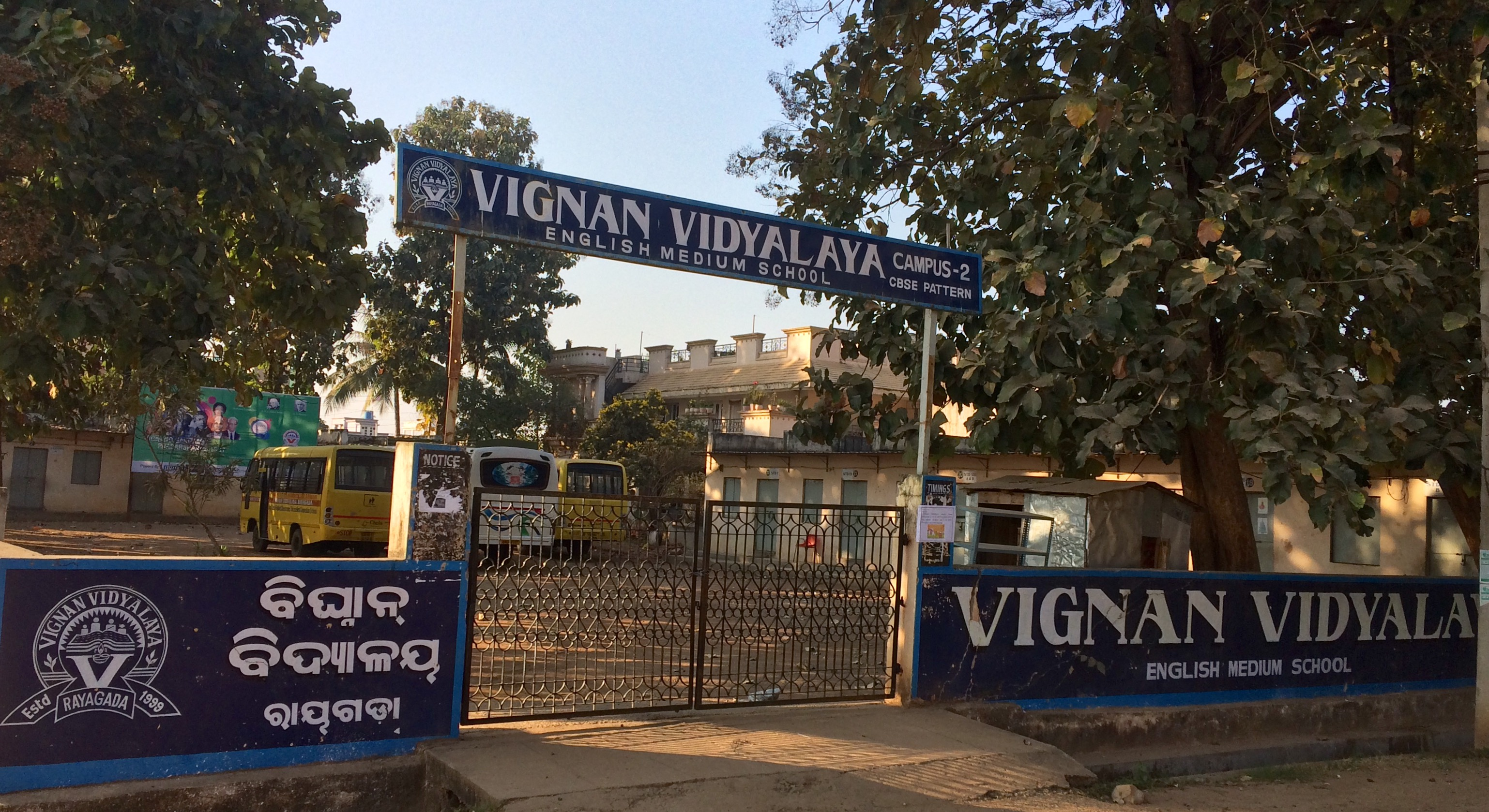 Vignan Vidyalaya (campus-2), Rayagada